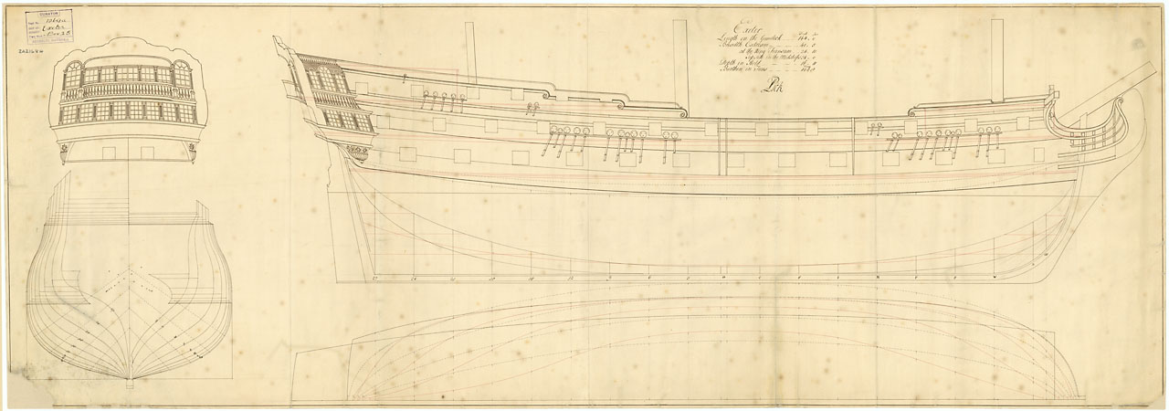 Exeter (1744) Scale: 1:48. Plan showing the body plan, stern board with some detail, sheer lines, and longitudinal half-breadth for Exeter, a 60-gun Fourth Rate, two-decker. Signed by Peirson Lock [Master Shipwright, Plymouth Dockyard, 1726-1742] EXETER 1744